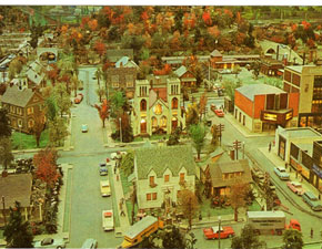 This is a good example of the miniature village